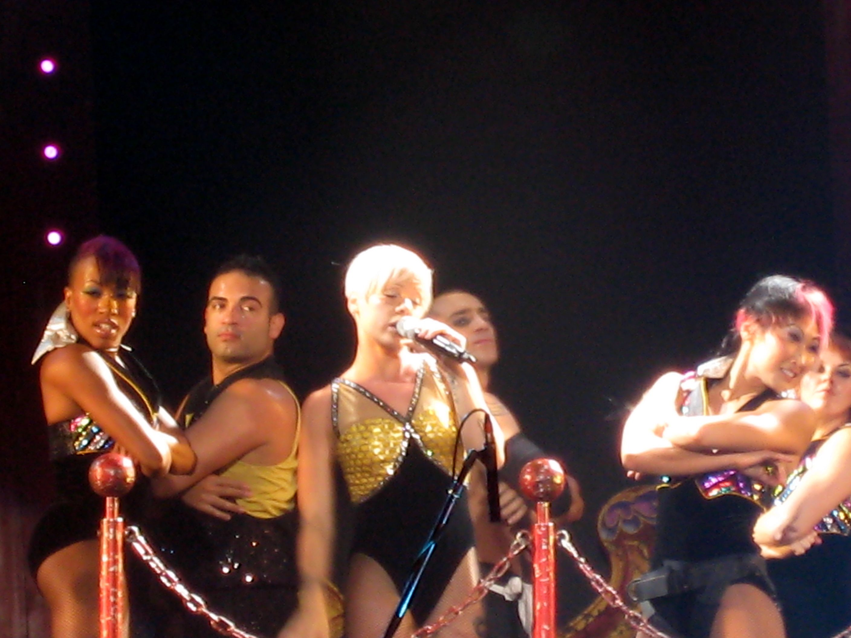 P!nk performing "Get The Party Started"